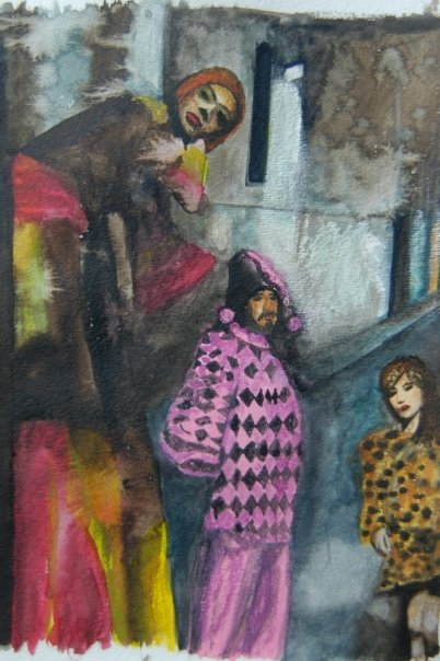 Vidalot is the last night of revelry before Ash Wednesday. Water color painting by Brad Erickson.